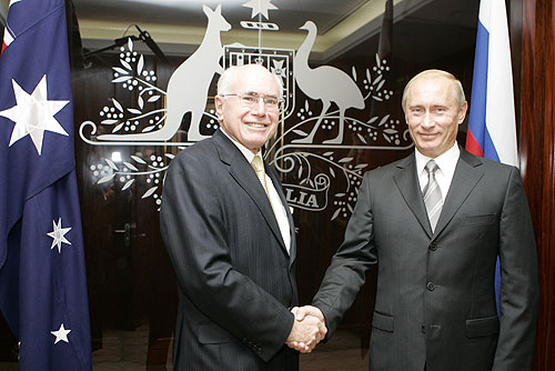 SYDNEY. With Australian Prime Minister John Howard.